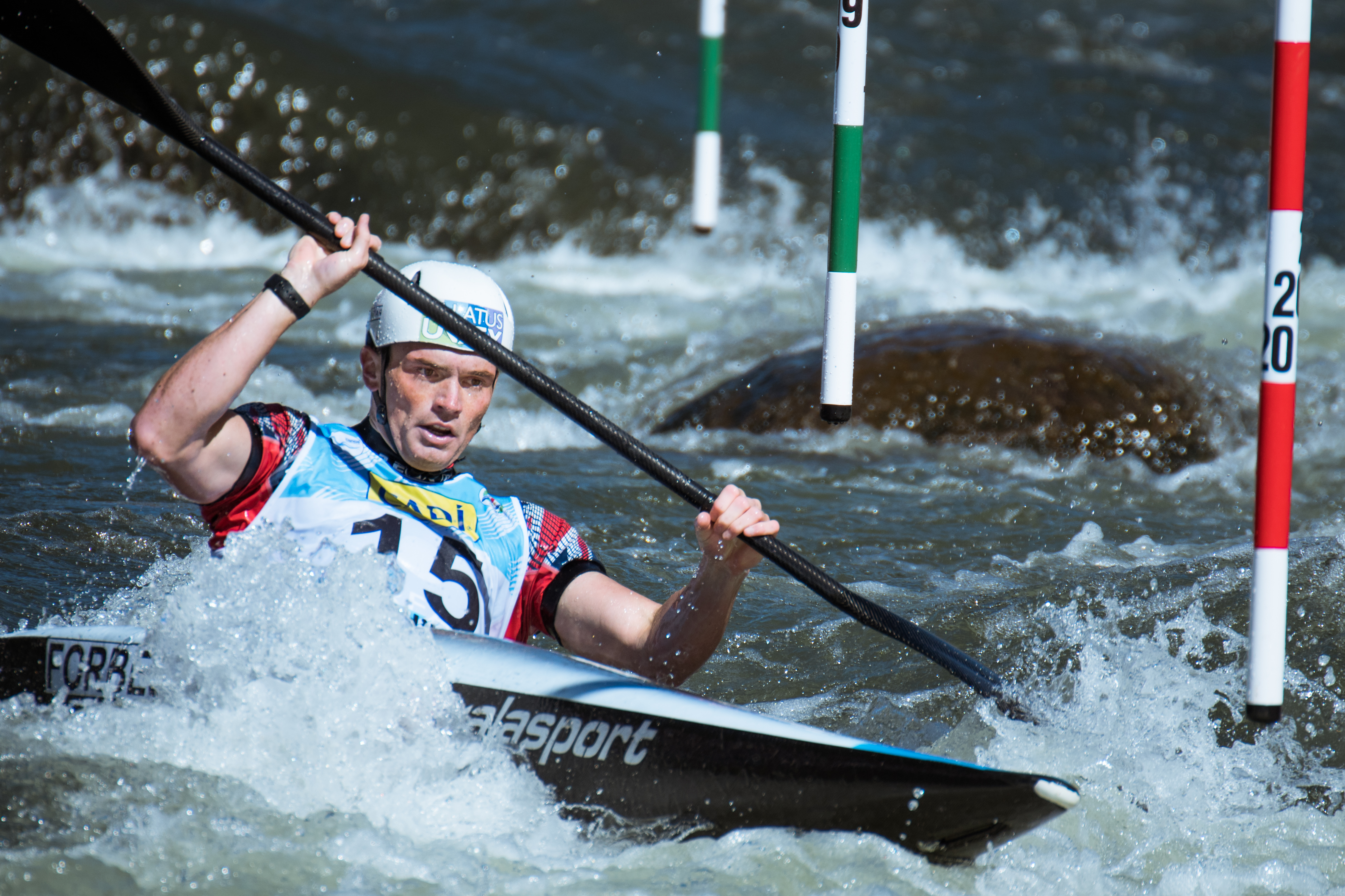 Bradley Forbes-Cryans during the 2019 Canoe Slalom World Championships in La Seu d'Urgell, Spain.